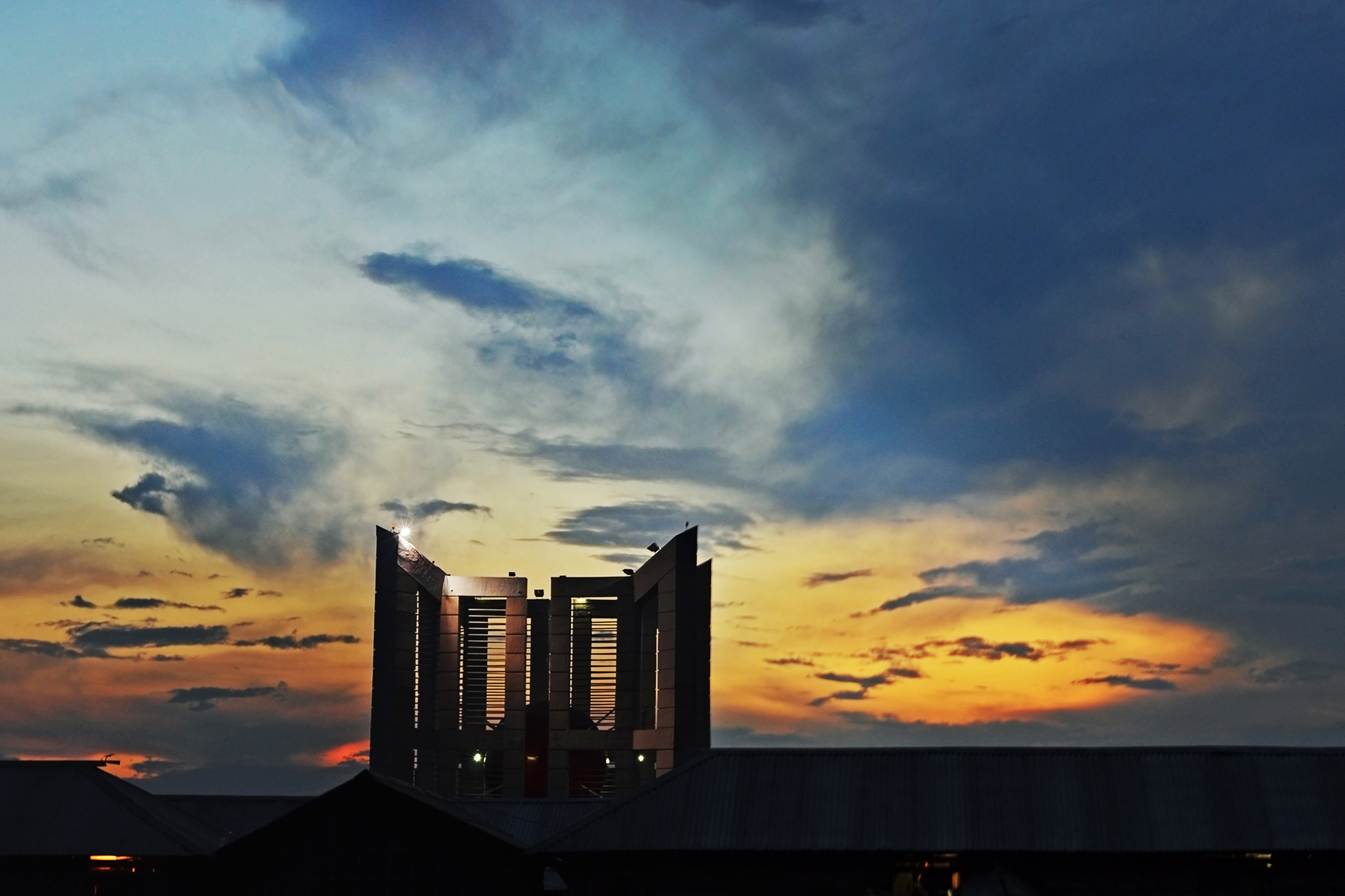 Gollamari, Khulna.